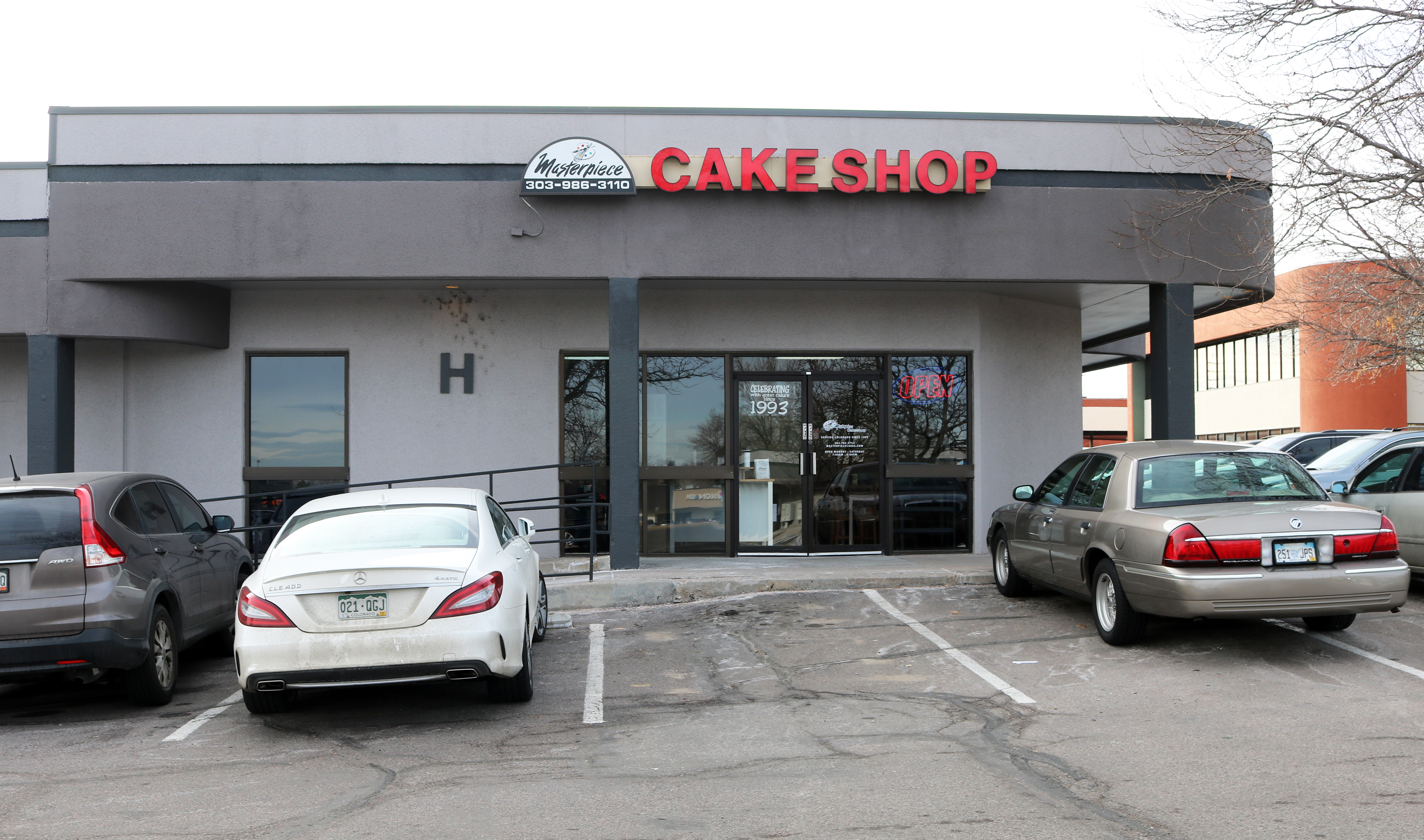 Masterpiece Cakeshop, located at 3355 South Wadsworth Boulevard, number H-117, in Lakewood, Colorado. The shop is one of the parties in the Masterpiece Cakeshop v. Colorado Civil Rights Commission Supreme Court case.